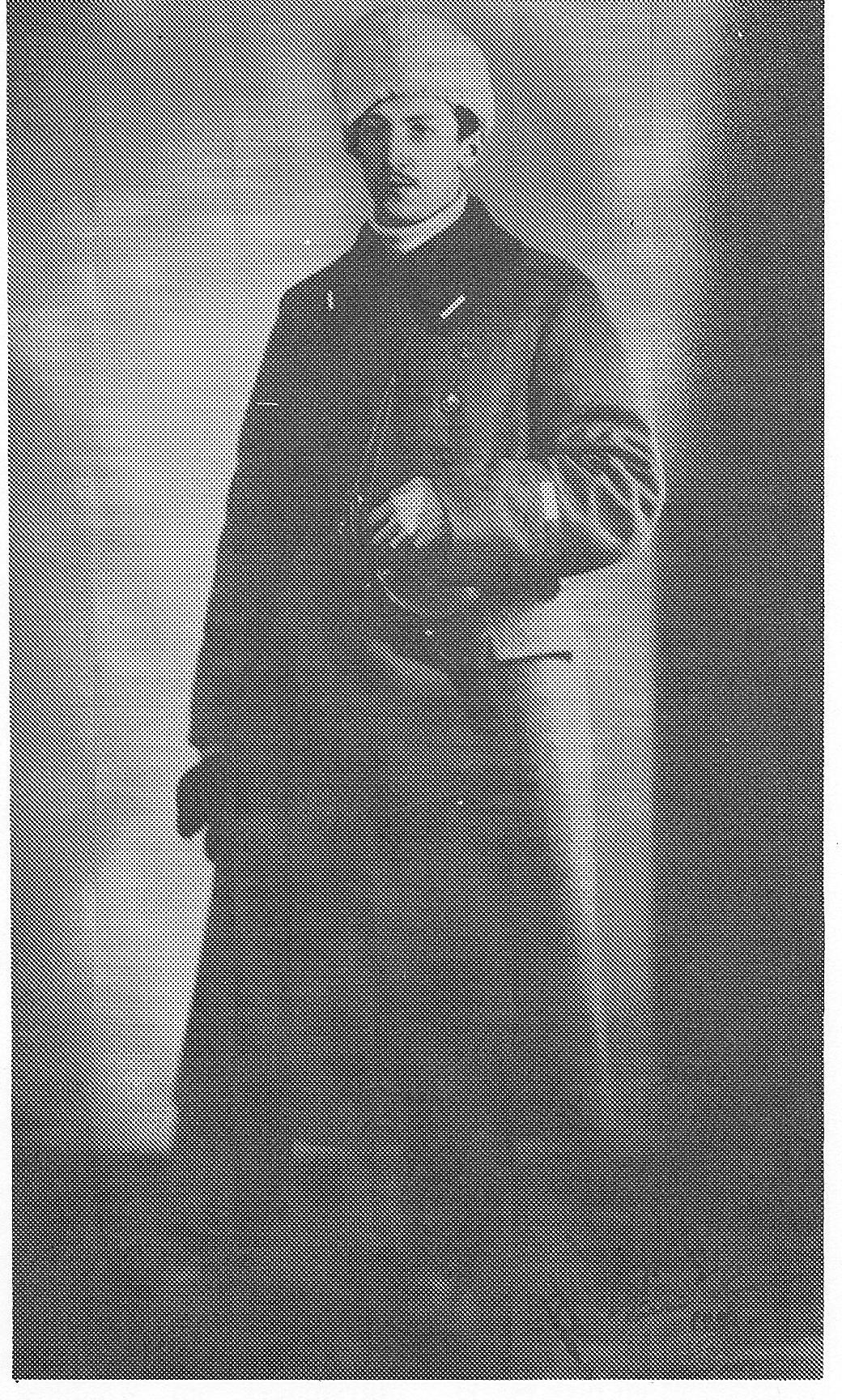 Helmer Andreas Fabricius Wøldike (1913-1944), Danish resistance member